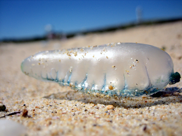 Bluebottle macro at Wollongong Beach